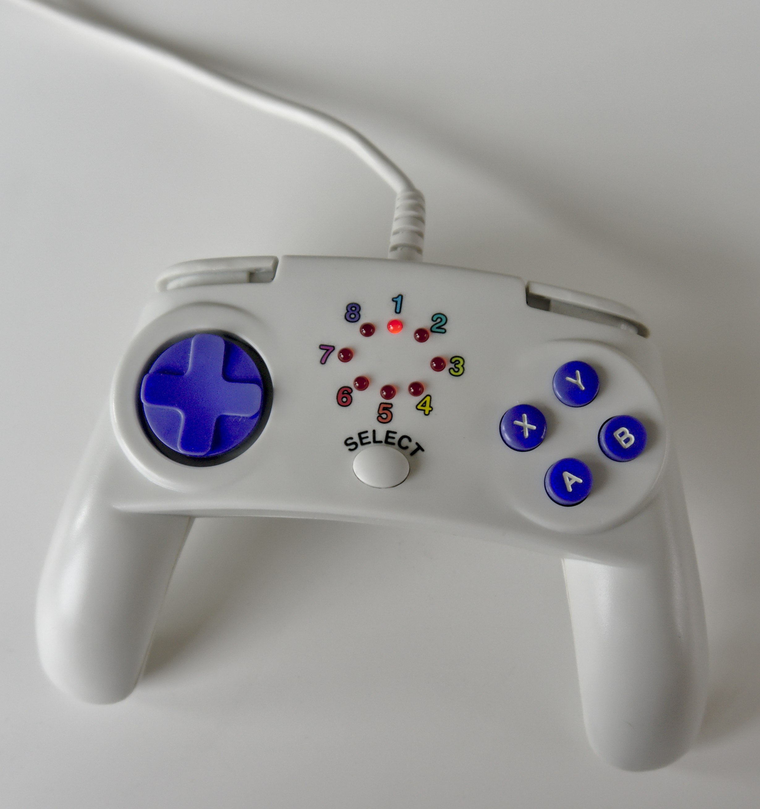 Controller for original-version Rokenbok remote-control vehicles.